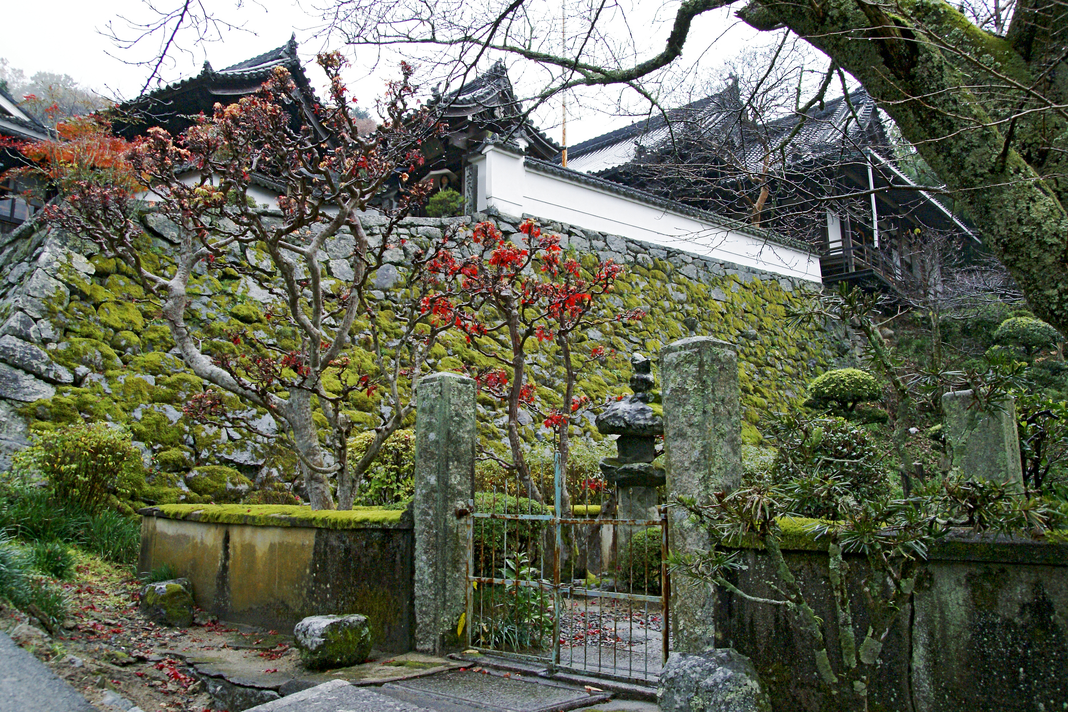 Shorin-ji in Sakurai, Nara prefecture, Japan